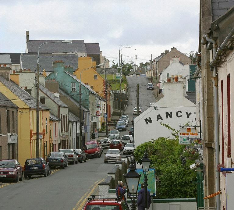 Ardara, a small town in County Donegal, Ireland. Shot 2002-06-18 with a Canon D60